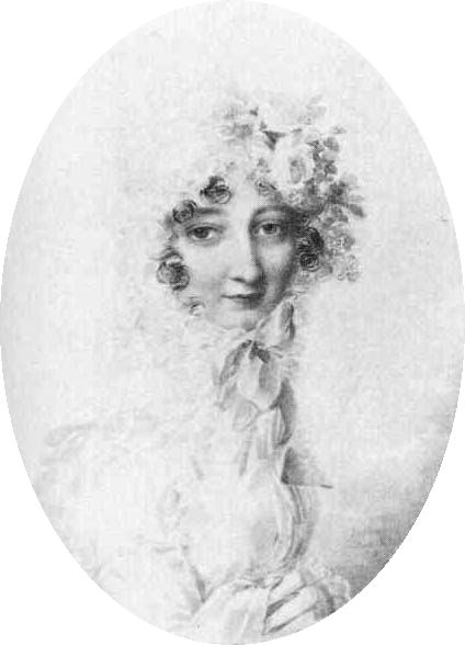 Empress Maria Ludovica (1787-1816), 3rd wife of Emperor Franz II.